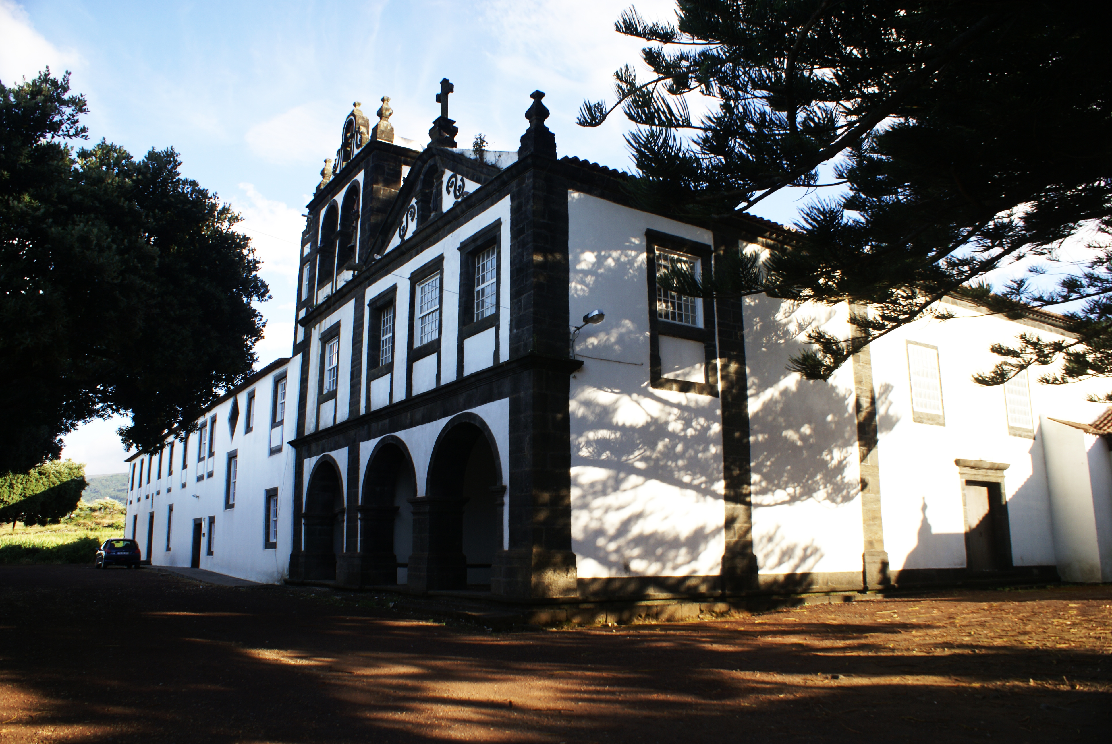 The front façade of the Church of São Pedro de Alcântara, São Roque, Pico (Azores), Portugal